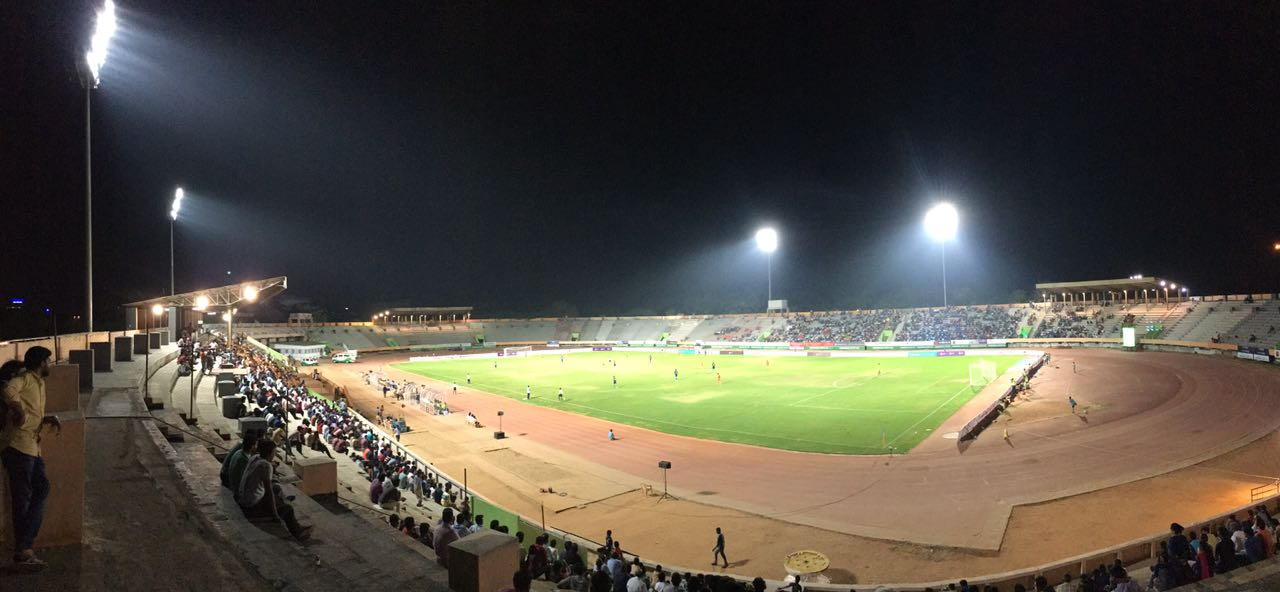 full view of stadium